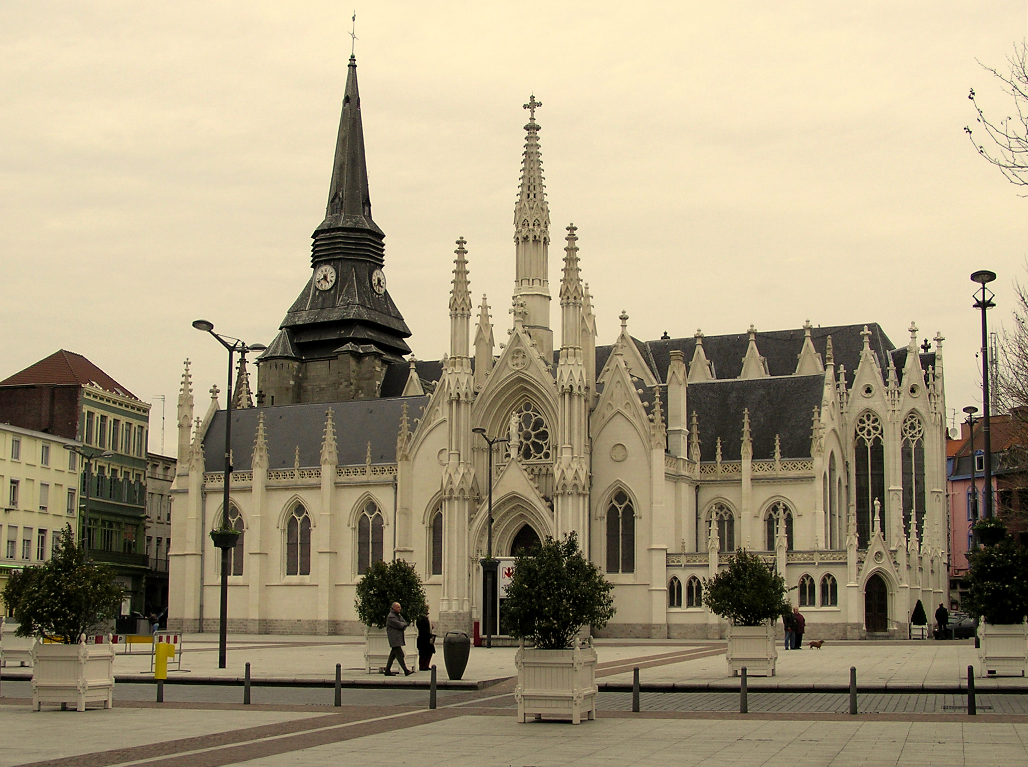 The church Saint Martin in Roubaix, France